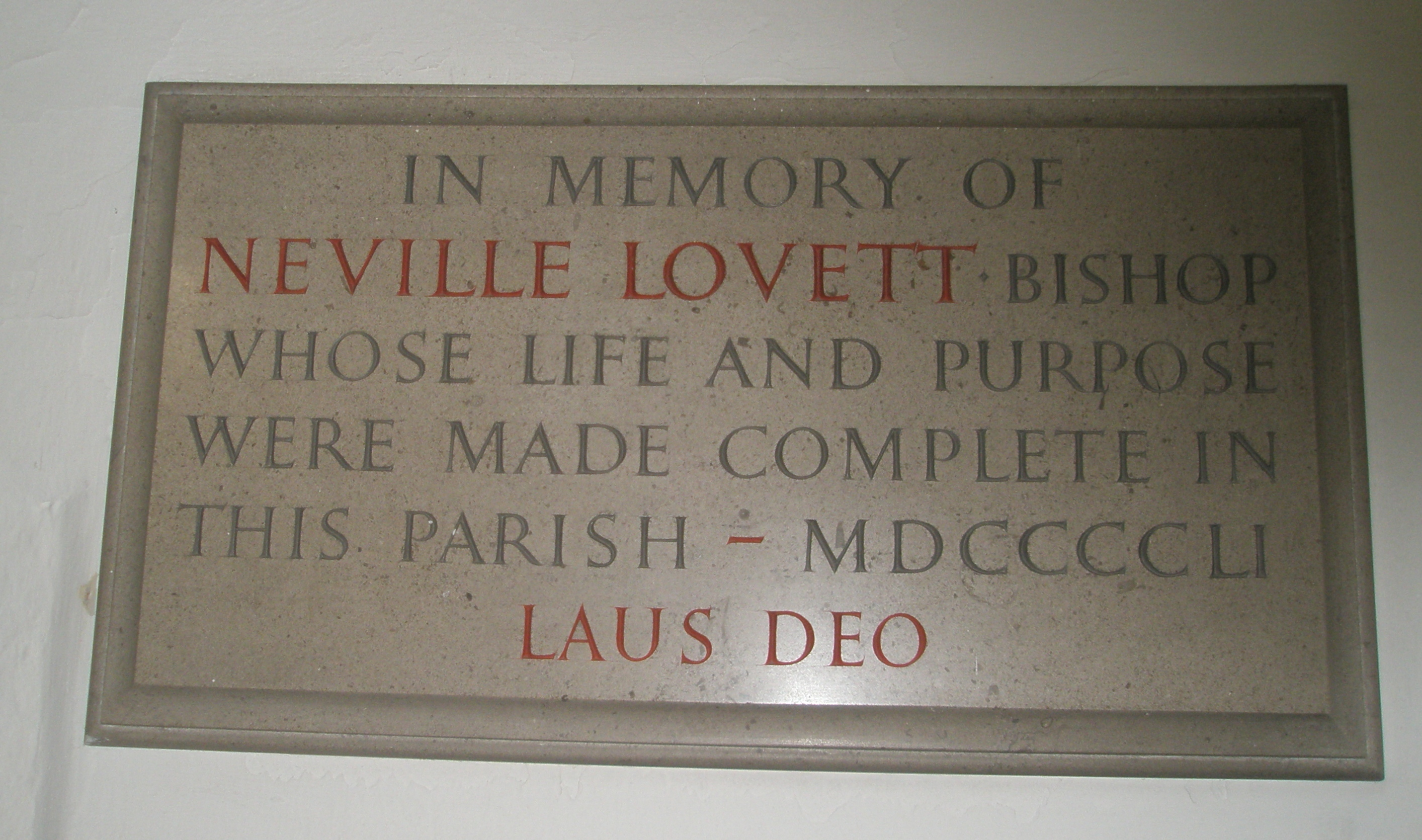 Plaque on wall at St Mary & All Saints, Droxford